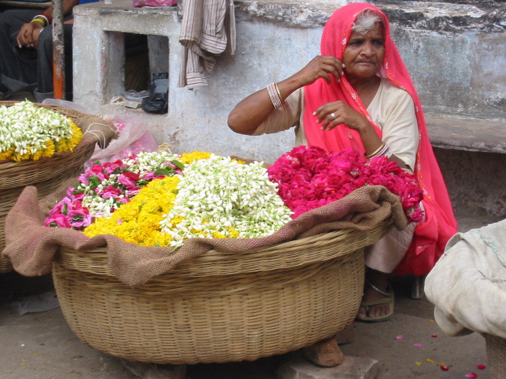 Inde India Pushkar femme woman market fleurs flowers